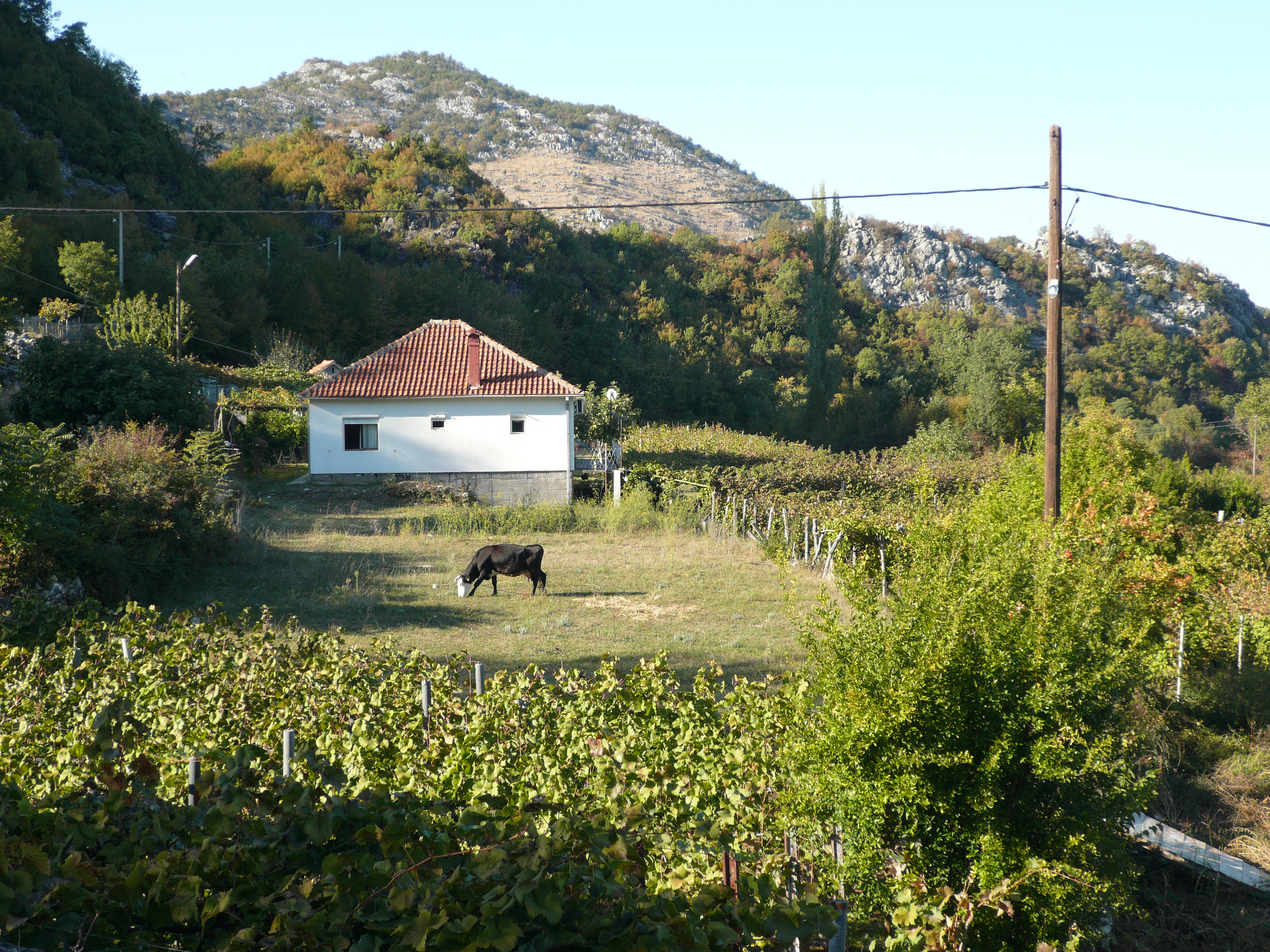 Wineyard near Skadar lake, Montenegro